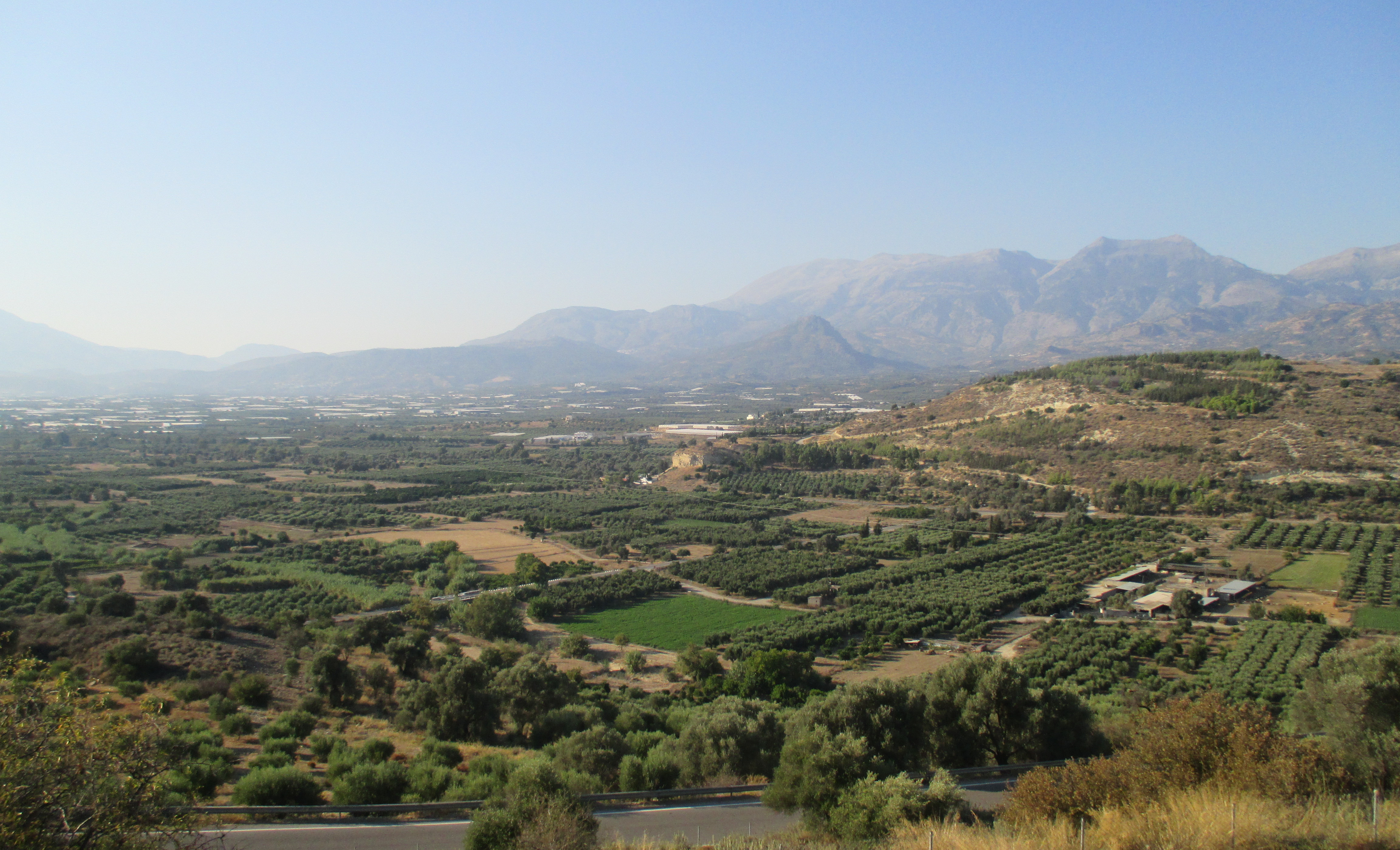 Messara Plain, Crete. View from Phaestos (Phaestus, Faistos) palace.